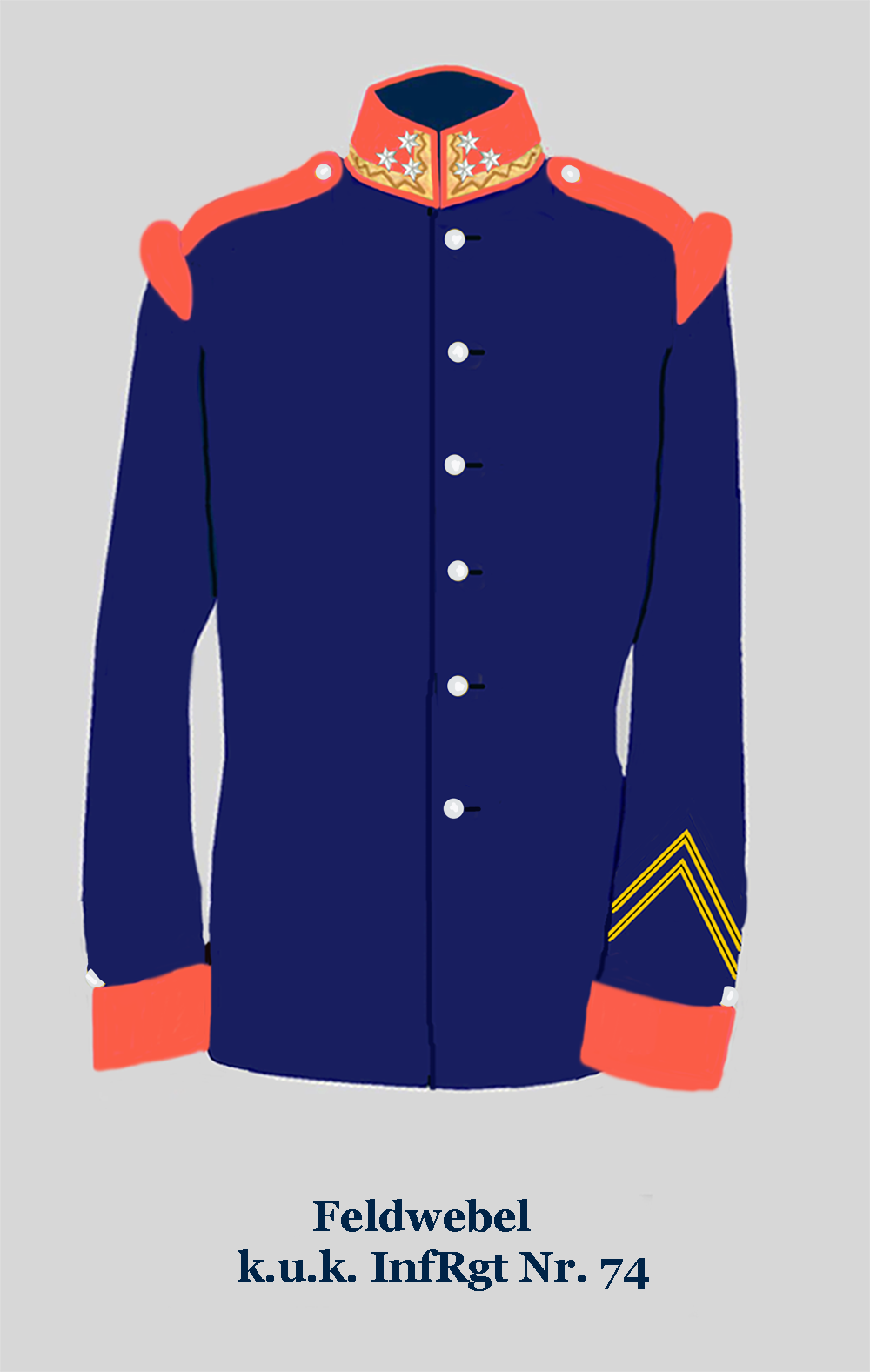 Master-Sergeant (German style tunic, brick-red regimental identification color an white buttons) of the Austria-Hungarian Army (More than 6 years in service)